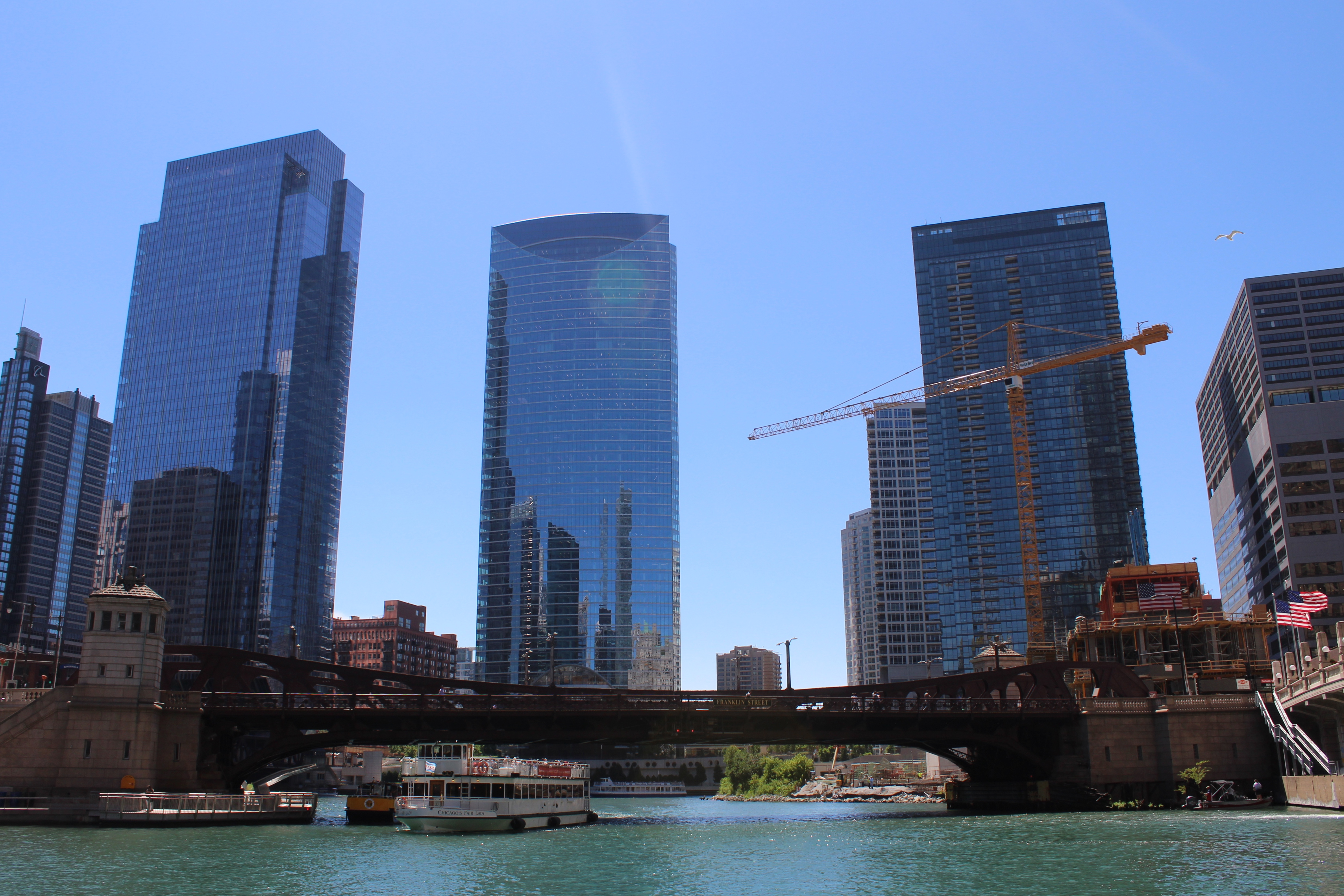 A view of Wolf Point Chicago in July 2018. Taken by Chris6d.